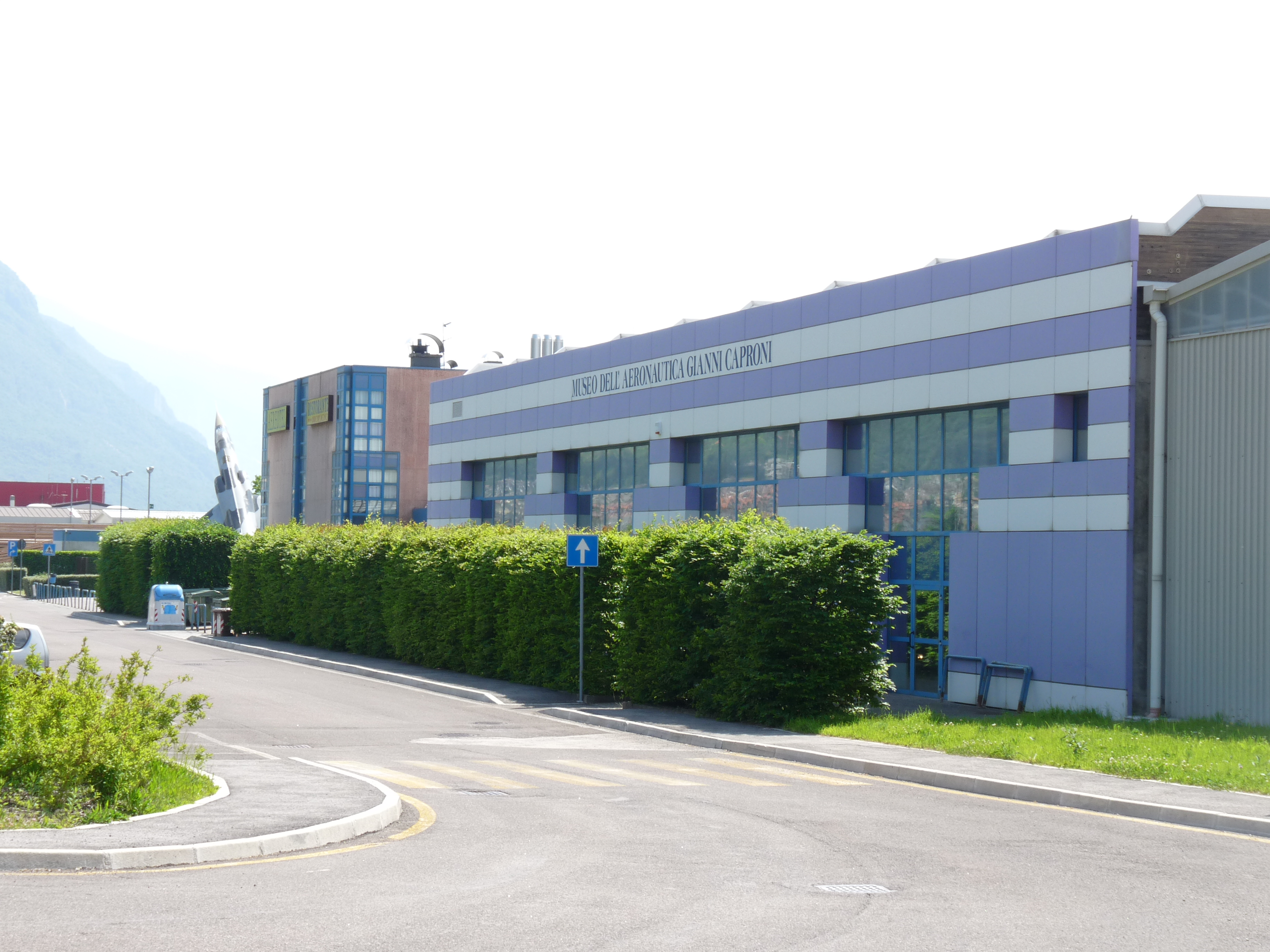 Trento (Italy): external view of the Museum of Aeronautics Gianni Caproni, at the airport